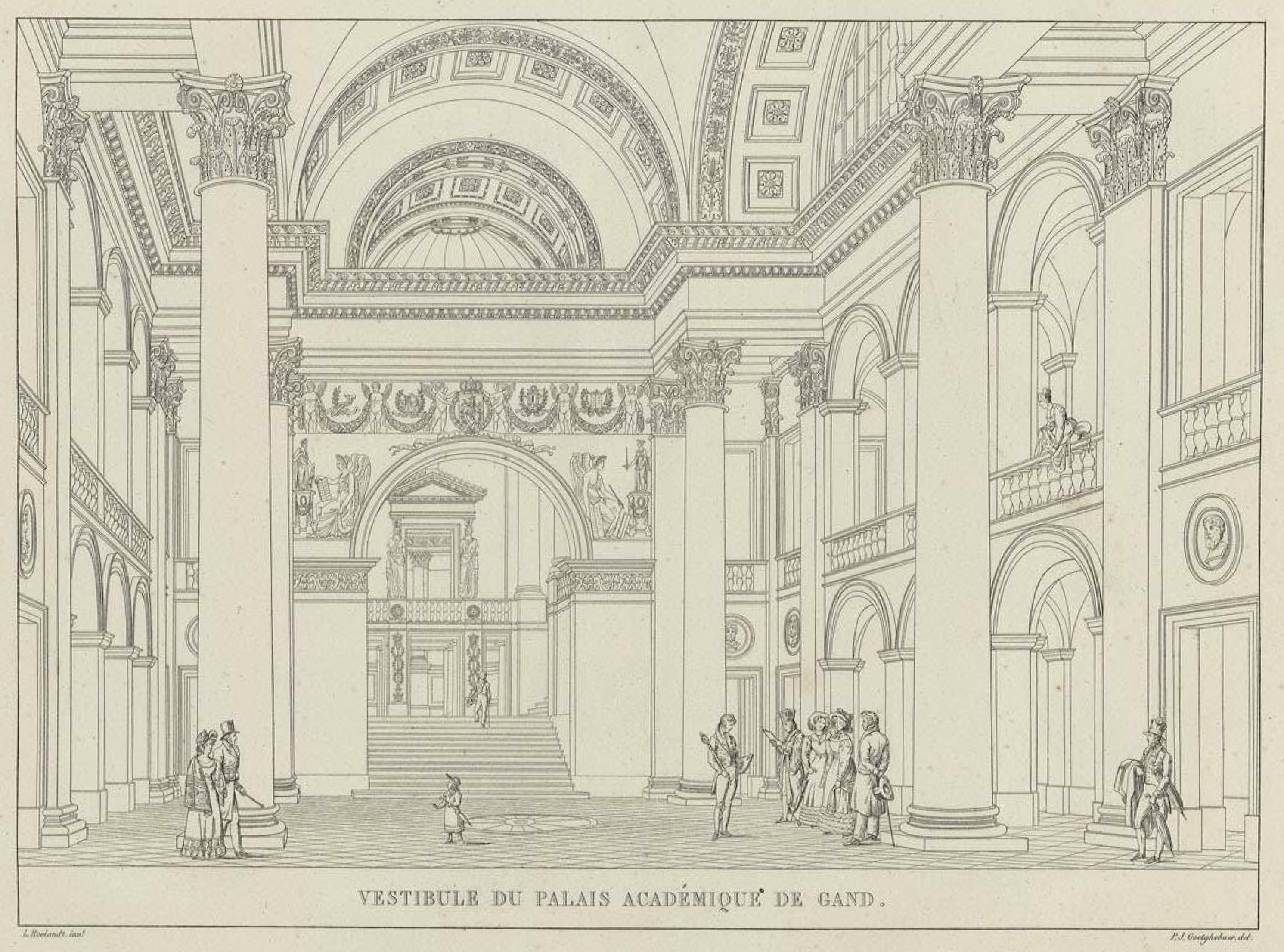 Pierre-Jacques Goetghebuer (1788-1866) became professor of architecture in Ghent, after his studies for architectural drawing at the local art academy. From 1817 he started working on a publication with images of the most remarkable buildings from the newly created United Kingdom of the Netherlands. This book would include both old and contemporary, neoclassicist buildings. Most of the 120 plates depict buildings from the Southern Netherlands, especially Brussels and Ghent. Goetghebuer executed the engravings based upon his own sketches or designs by the architects themselves. Other artists finished the engravings in aquatint. Goetghebuer published this collection of engravings in 1827 with publisher André Benoît II Steven, and he dedicated them to King William I. Many buildings in this book have since disappeared, hence its significant historical importance. Also published in Dutch, with the title Verzameling der merkwaardigste gebouwen in het Koningrijk der Nederlanden.